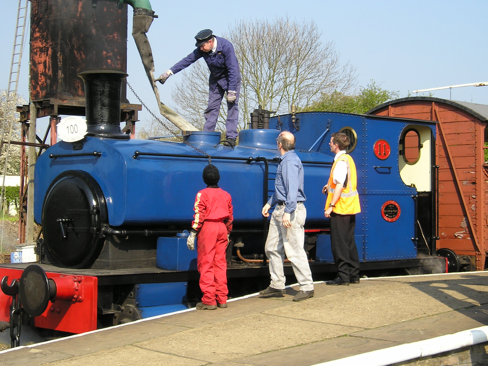 No.11 steam locomotive at the east anglian railway museum